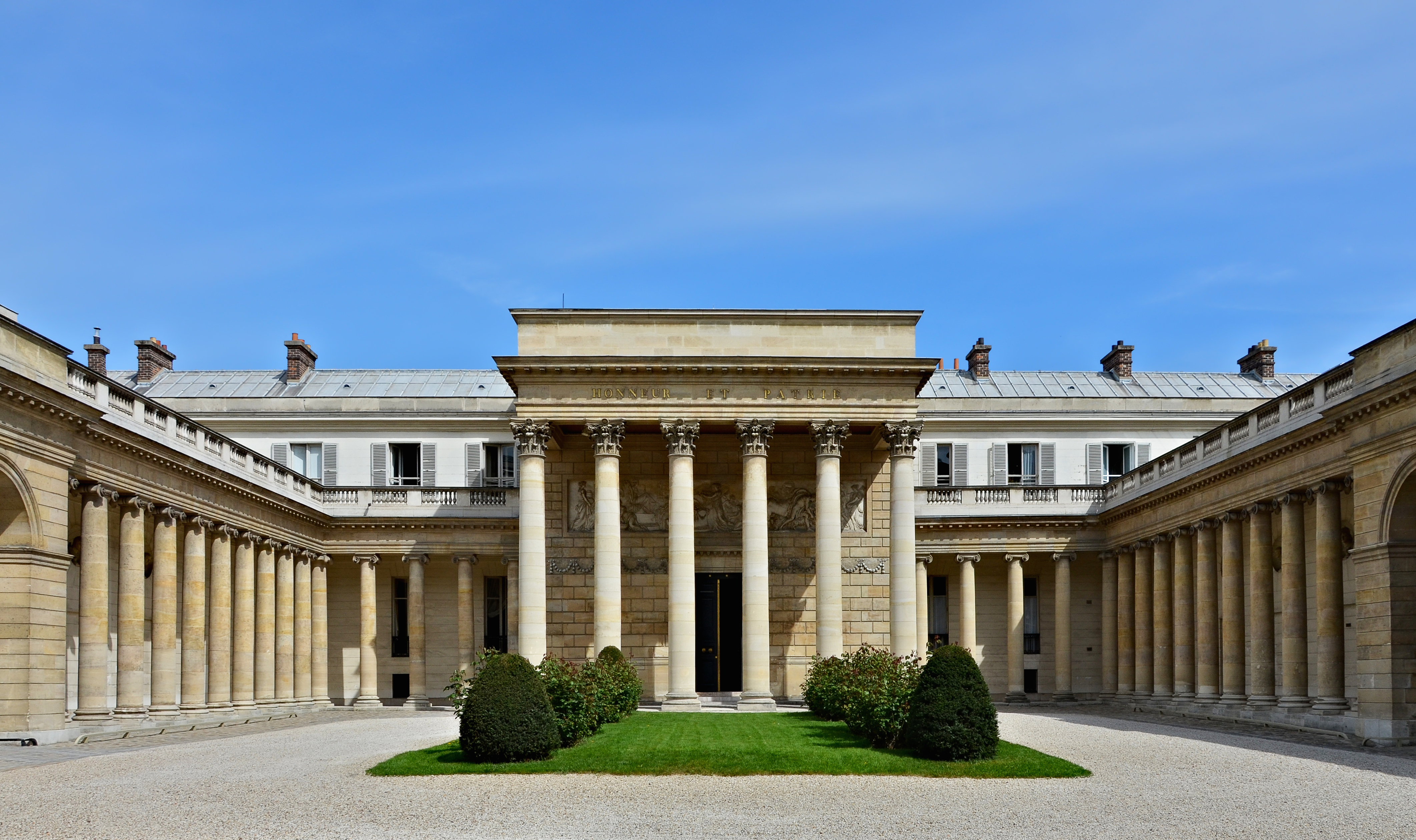 Palace of the Légion d'honneur, inner courtyard, Paris, 7e arr.